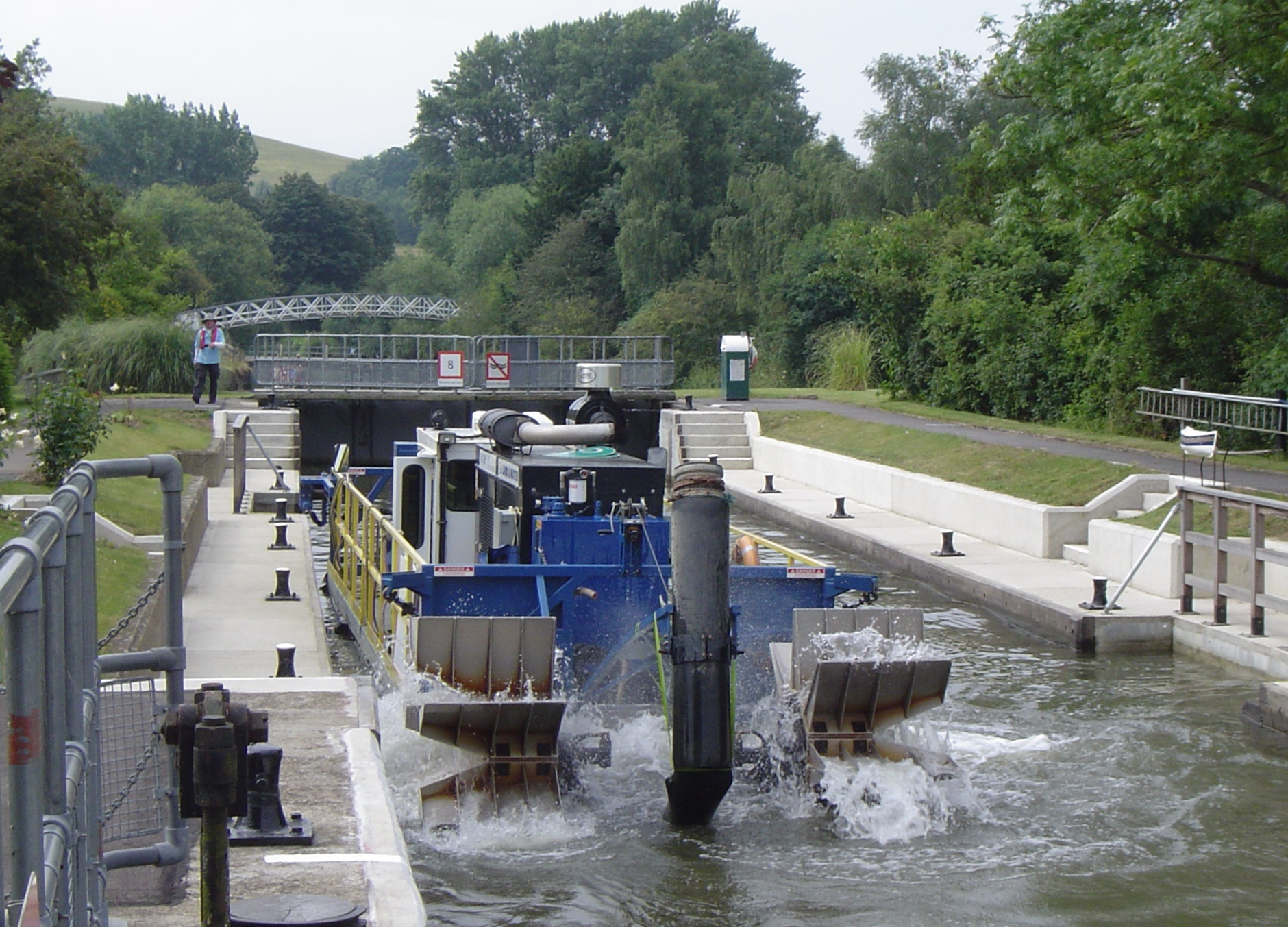 Day's Lock on the River Thames near Dorchester-on-Thames in Oxfordshire, looking downstream